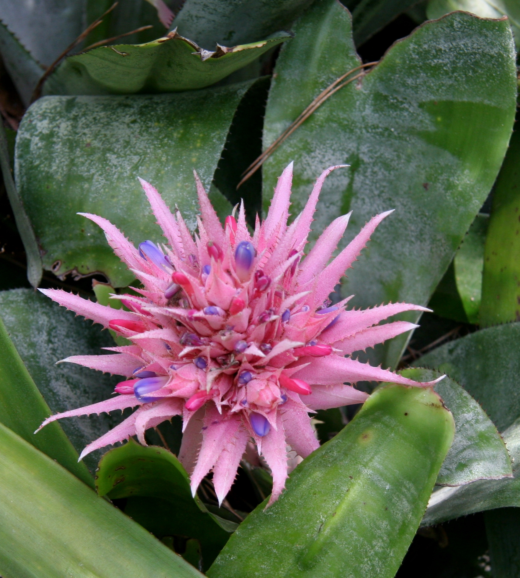 Aechmea fasciata — with flower. In the 'Bromeliad Garden' of Lotusland — in Montecito, near Santa Barbara, in southern California.